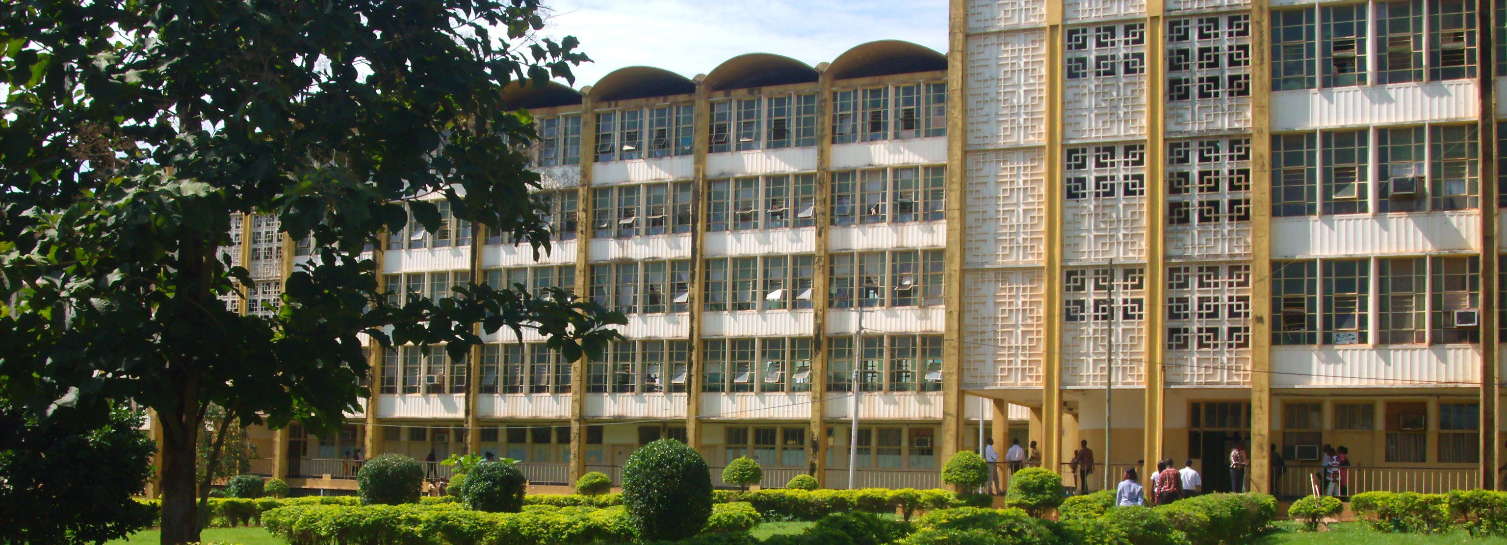 Panorama: Komfo Anokye Teaching Hospital (KATH) in Kumasi, Ashanti Region, Ghana.